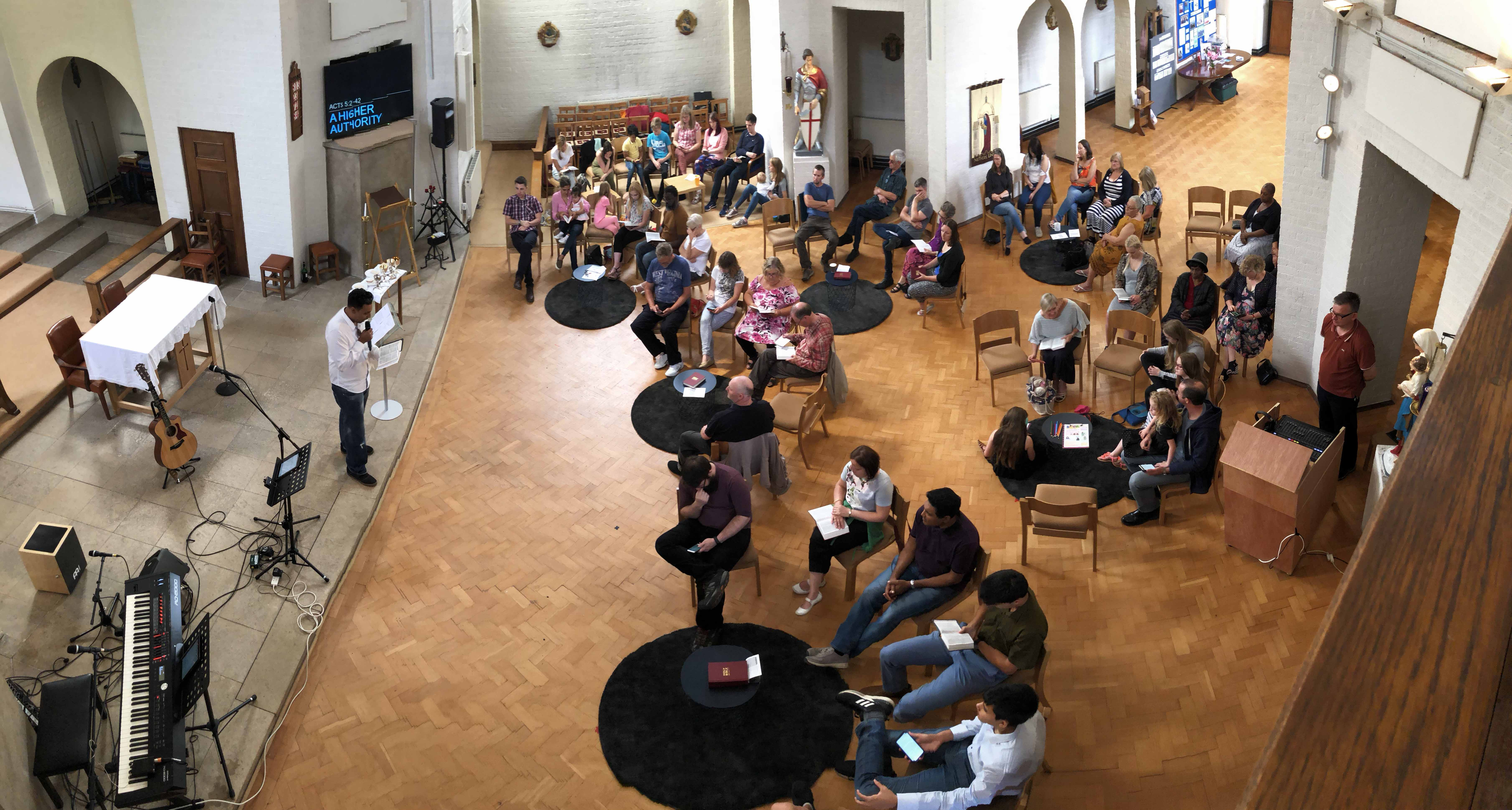 A service at St Mary and St George Church showing the interior